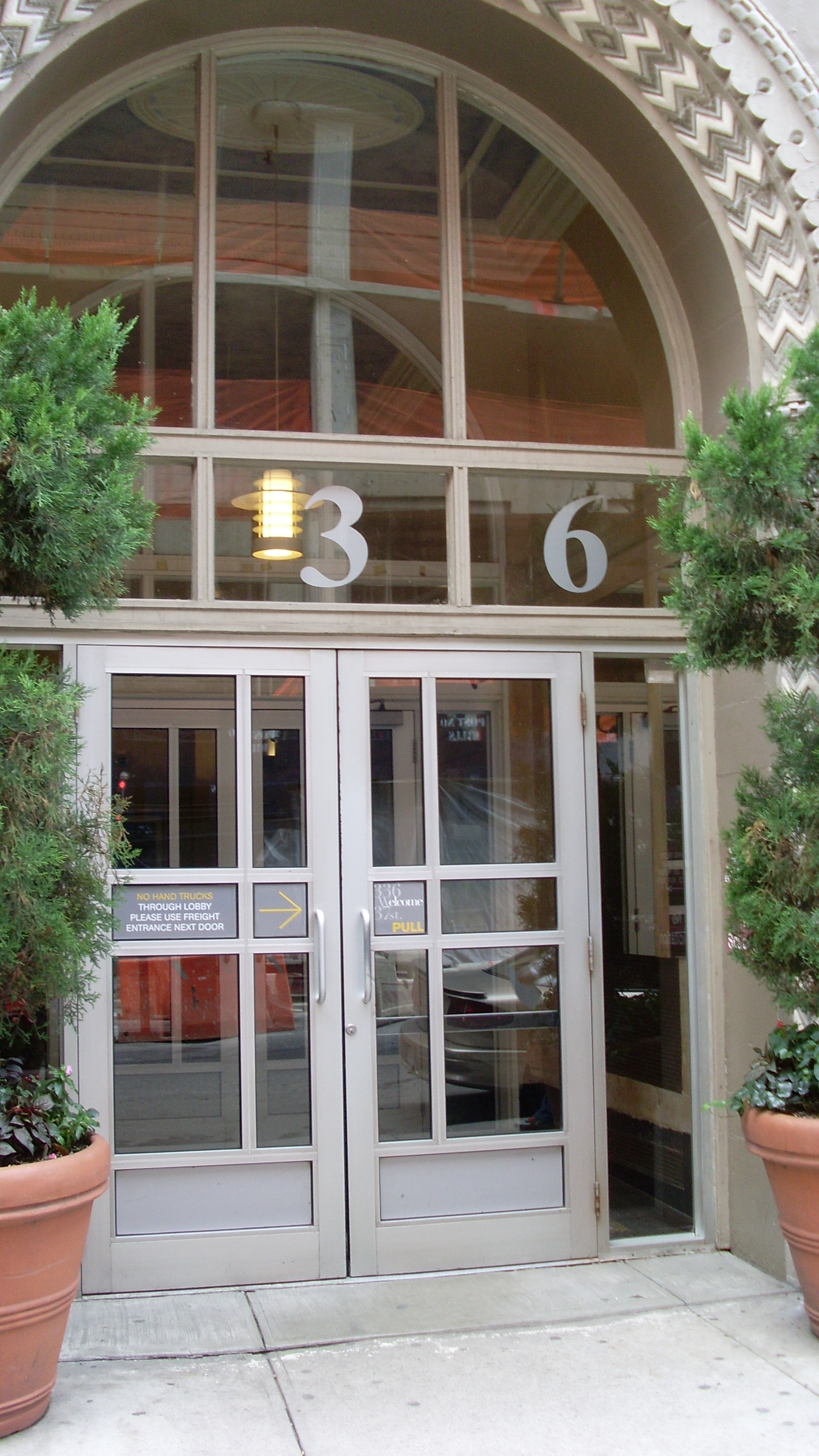 This photo is of Wikis Take Manhattan goal code D25, The Camera Club of New York.